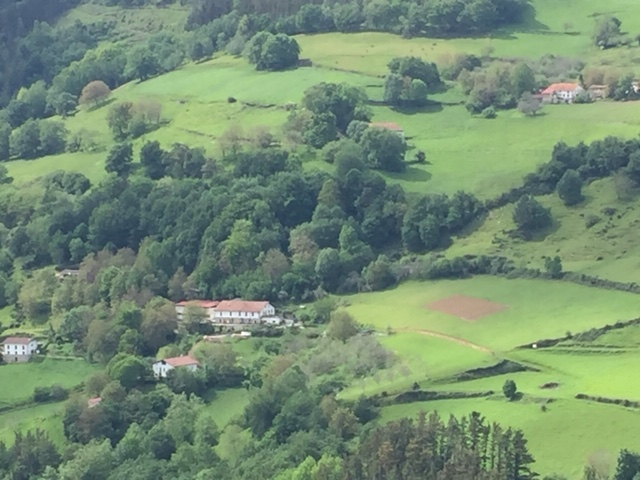 Farmouses of Aldapa distric in Alkiza, Urruzola Txiki, Urruzola Azpi, Urruzola, Arpide and Arpidegain